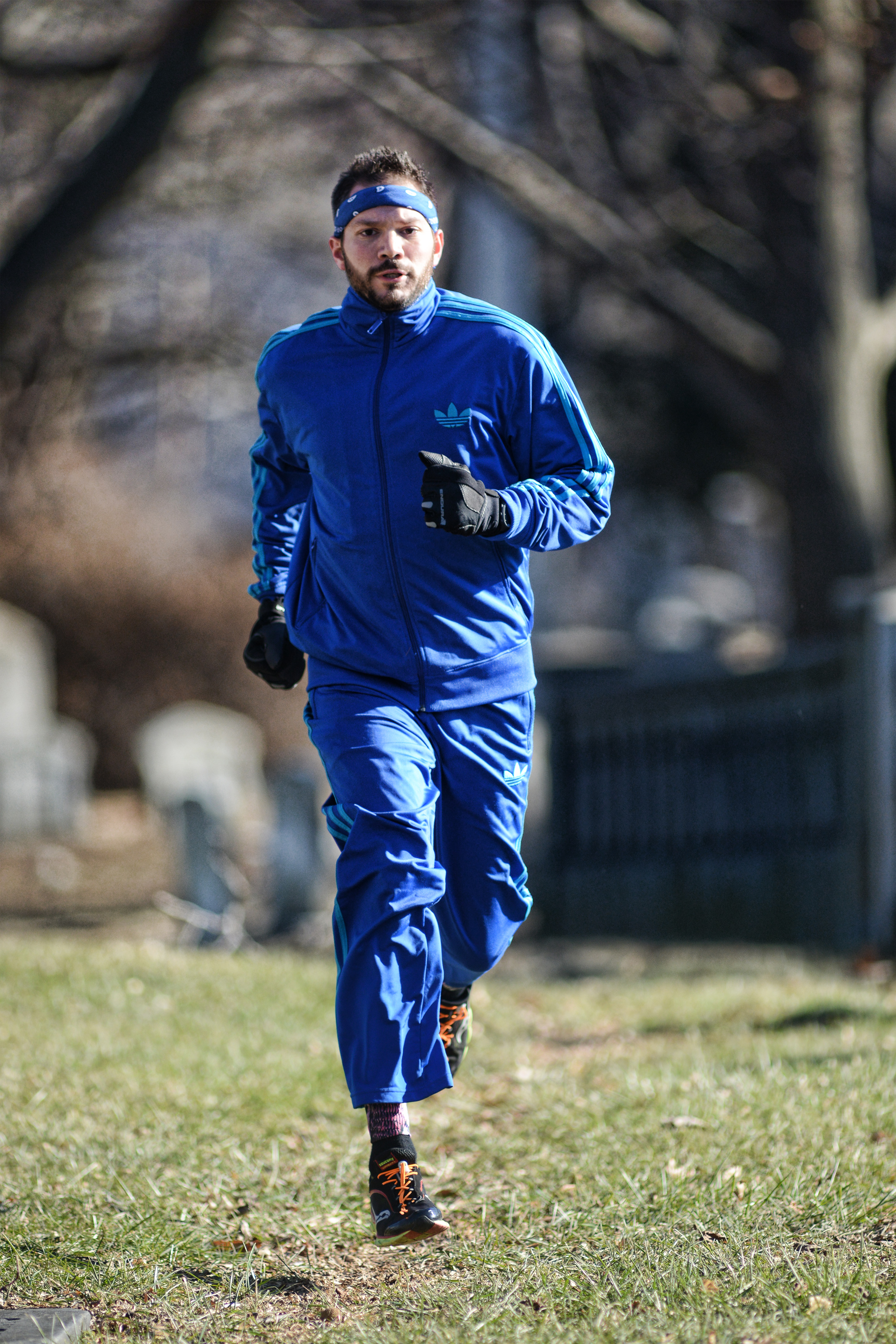 Man wearing a tracksuit running in The Woodlands Cemetery, Philadelphia PA